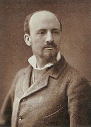 Gustave Jean Jacquet